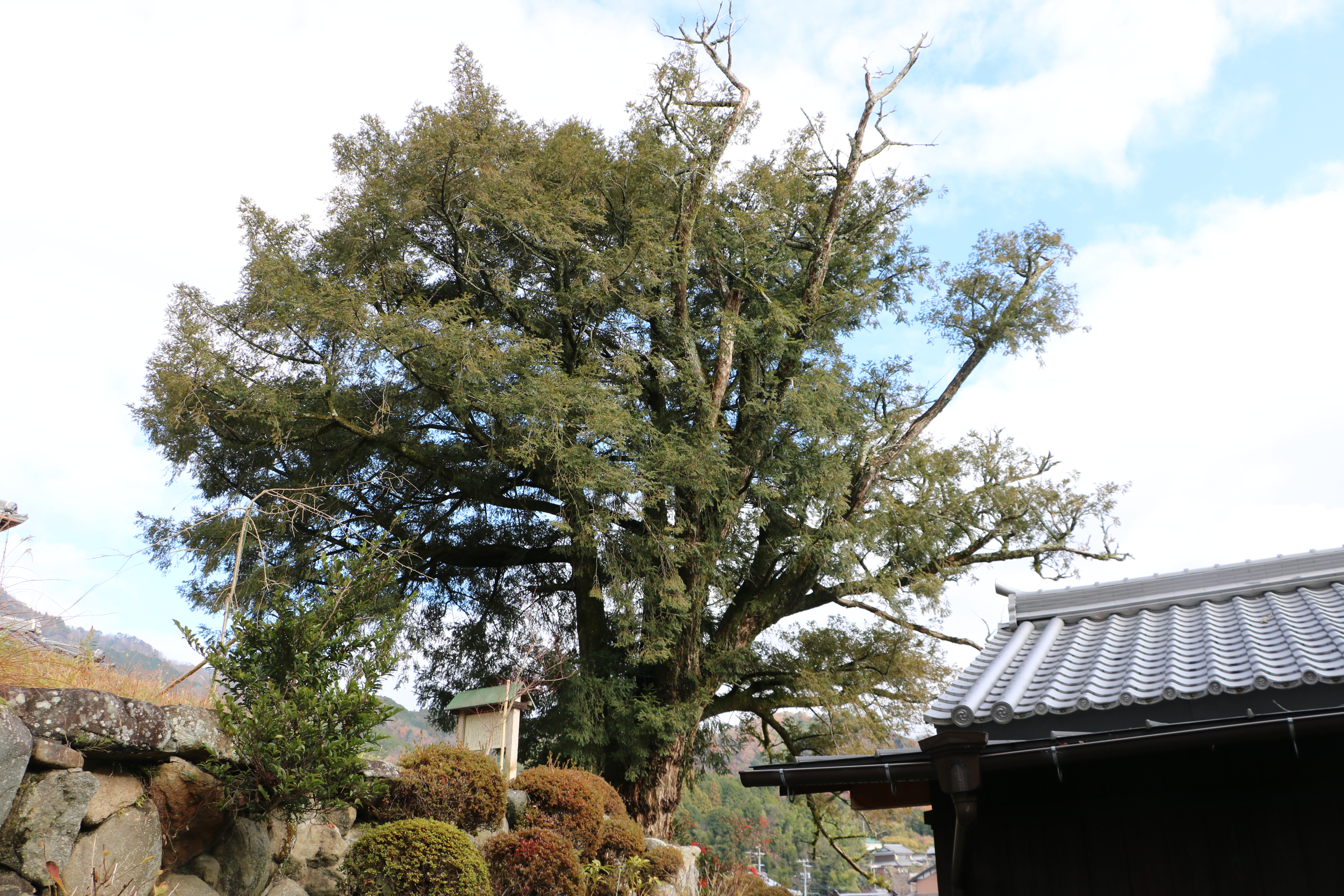 Kagoji no Shibunashigaya